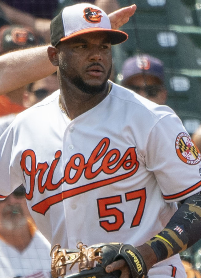 Manuel Margot, Dana DeMuth, Hanser Alberto during a 2019 game between the San Diego Padres and Baltimore Orioles at Camden Yards in 2019